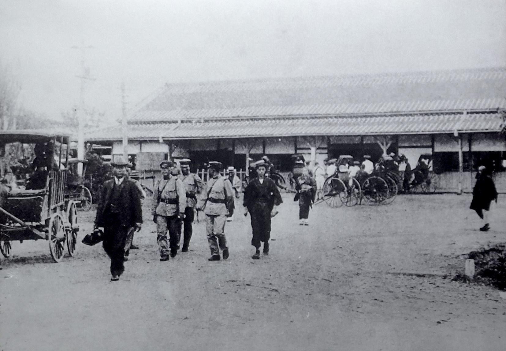 Chiba Station in the late Meiji period